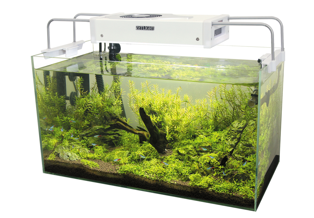 water plant aquarium led light